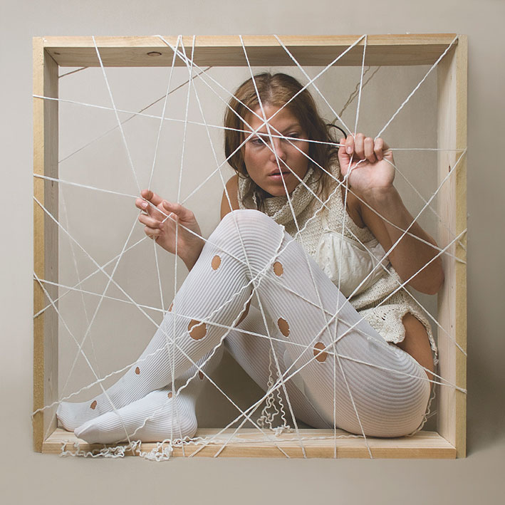 Fotografie Barbory Bálkové; Barbora Bálková´s photographs Personality rights warningAlthough this work is freely licensed or in the public domain, the person(s) shown may have rights that legally restrict certain re-uses unless those depicted consent to such uses. In these cases, a model release or other evidence of consent could protect you from infringement claims.